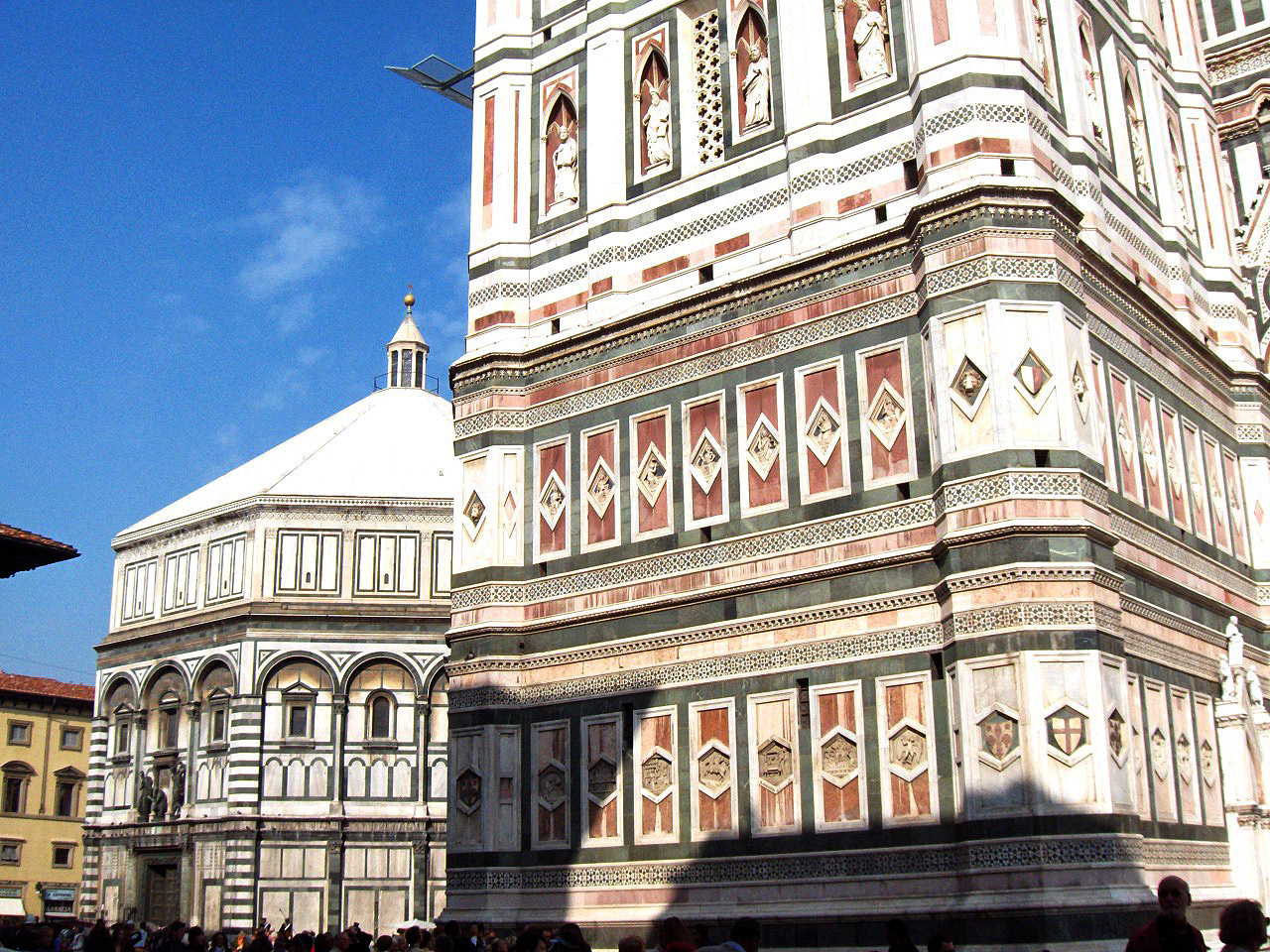 Lower part of Giotto's bell tower of the Duomo Santa Maria del Fiore, with the baptistry in the background; Florence, Italy Own photo - photo made by Georges Jansoone on 13 October 2005